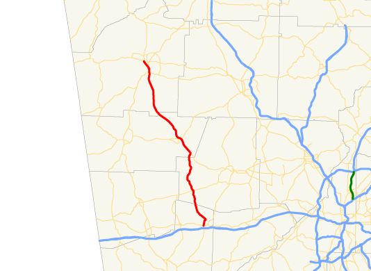 Map of Georgia State Route 101